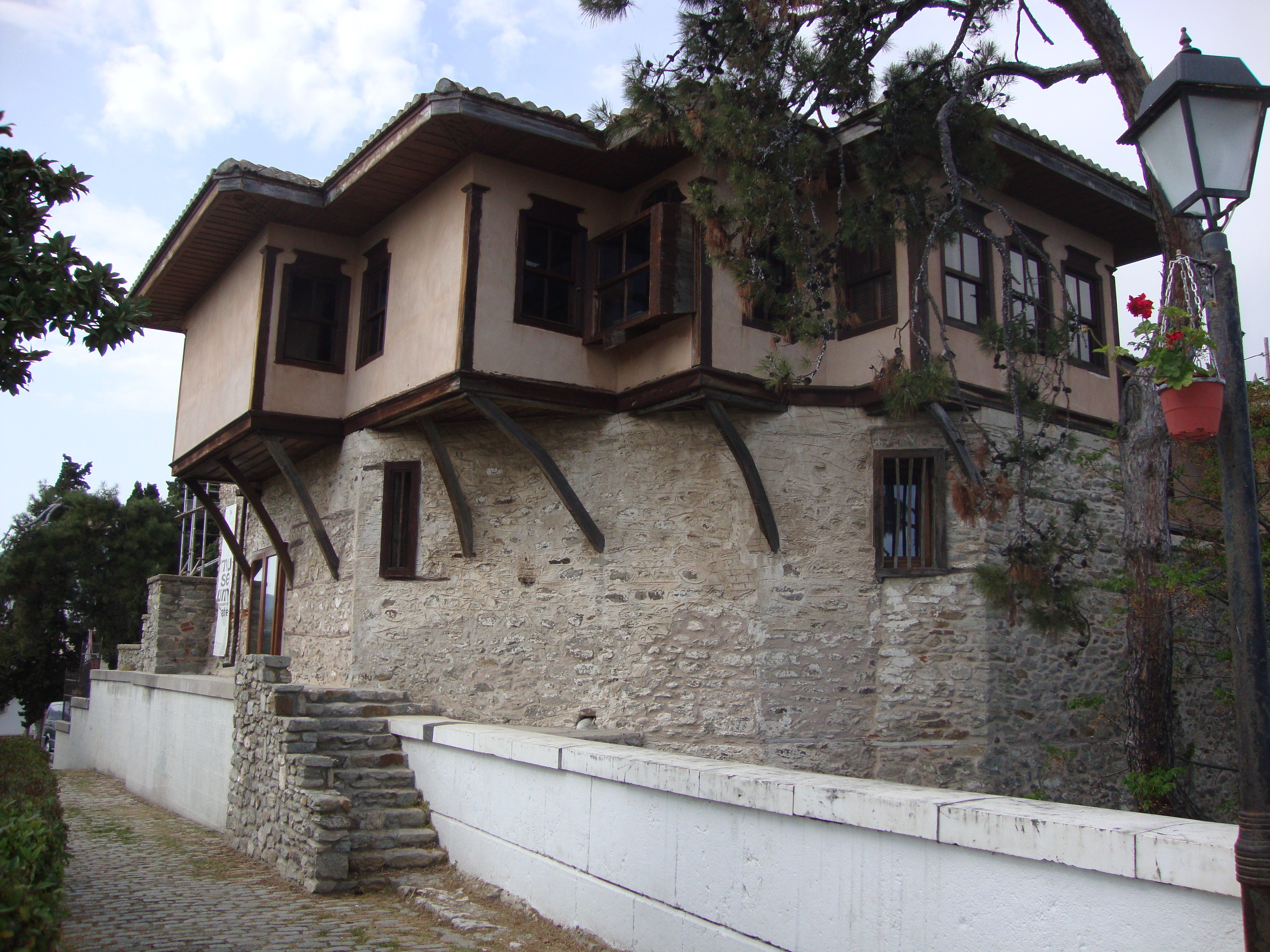 Kalava, Greece